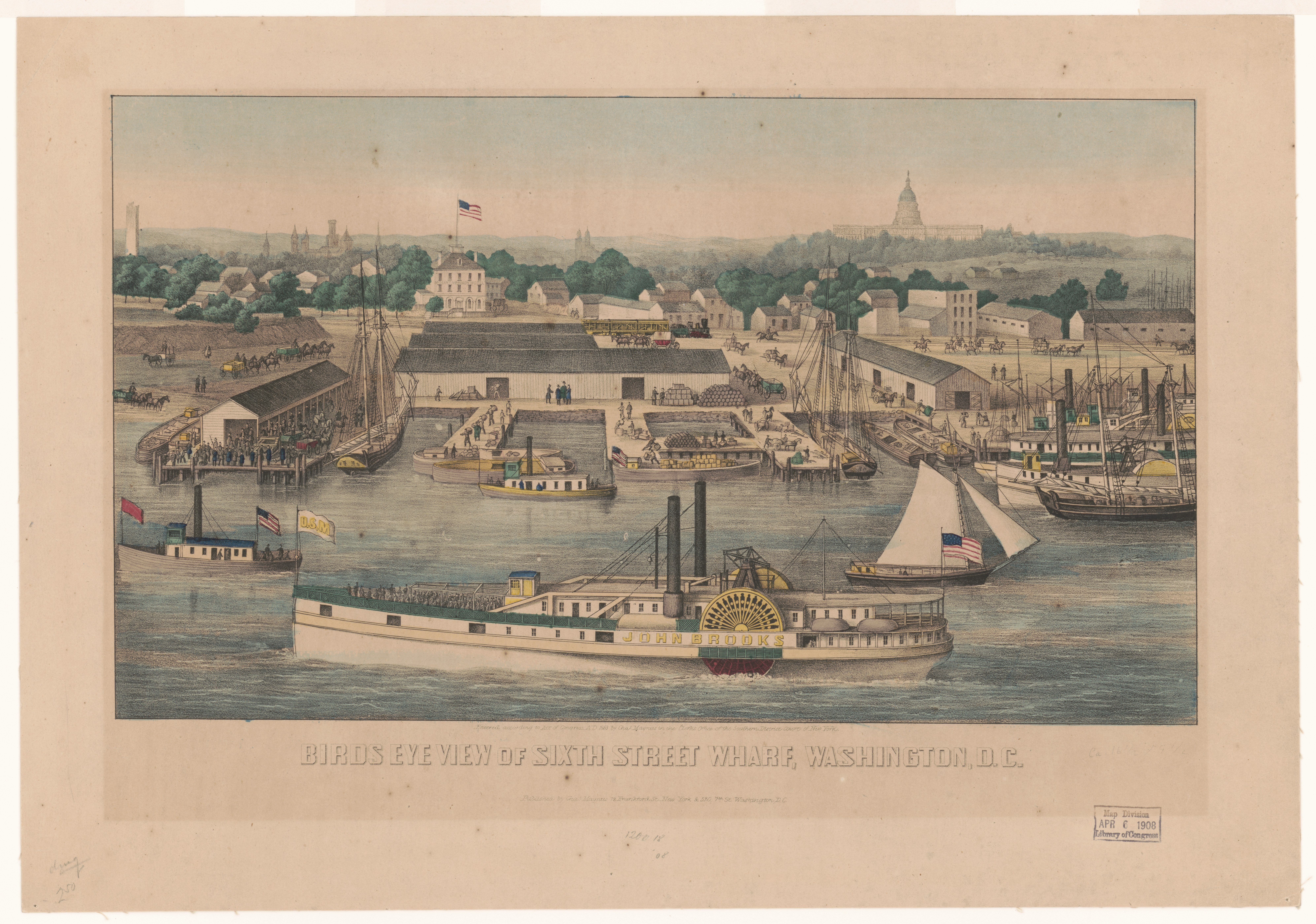 Title: Birds eye view of Sixth Street wharf, Washington, D.C. Abstract/medium: 1 print : lithograph, hand-colored ; sheet 34 x 49.5 cm.